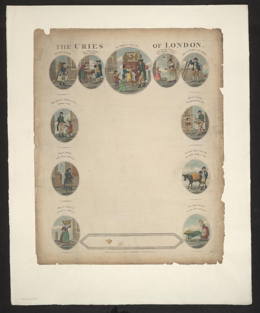 Writing blank of 1802 entitled The cries of London; Mount has manuscript annotation: "watermarked 1818"; Halfpenny show box; Fine native oysters, three a penny; Old chairs to mend; Shoe strings, a penny a pair, a penny a pair; Past 12. O'clock and a cloudy morning; Buy my mackerel, my fine live mackerel; Fine China oranges. Two for three half-pence; Any lilly-white sand oh! my pretty maids to day; Two for a penny, young lambs to sell; Oars or scullers your Honor; Come buy my primroses, two bunches a penny; Cries of London